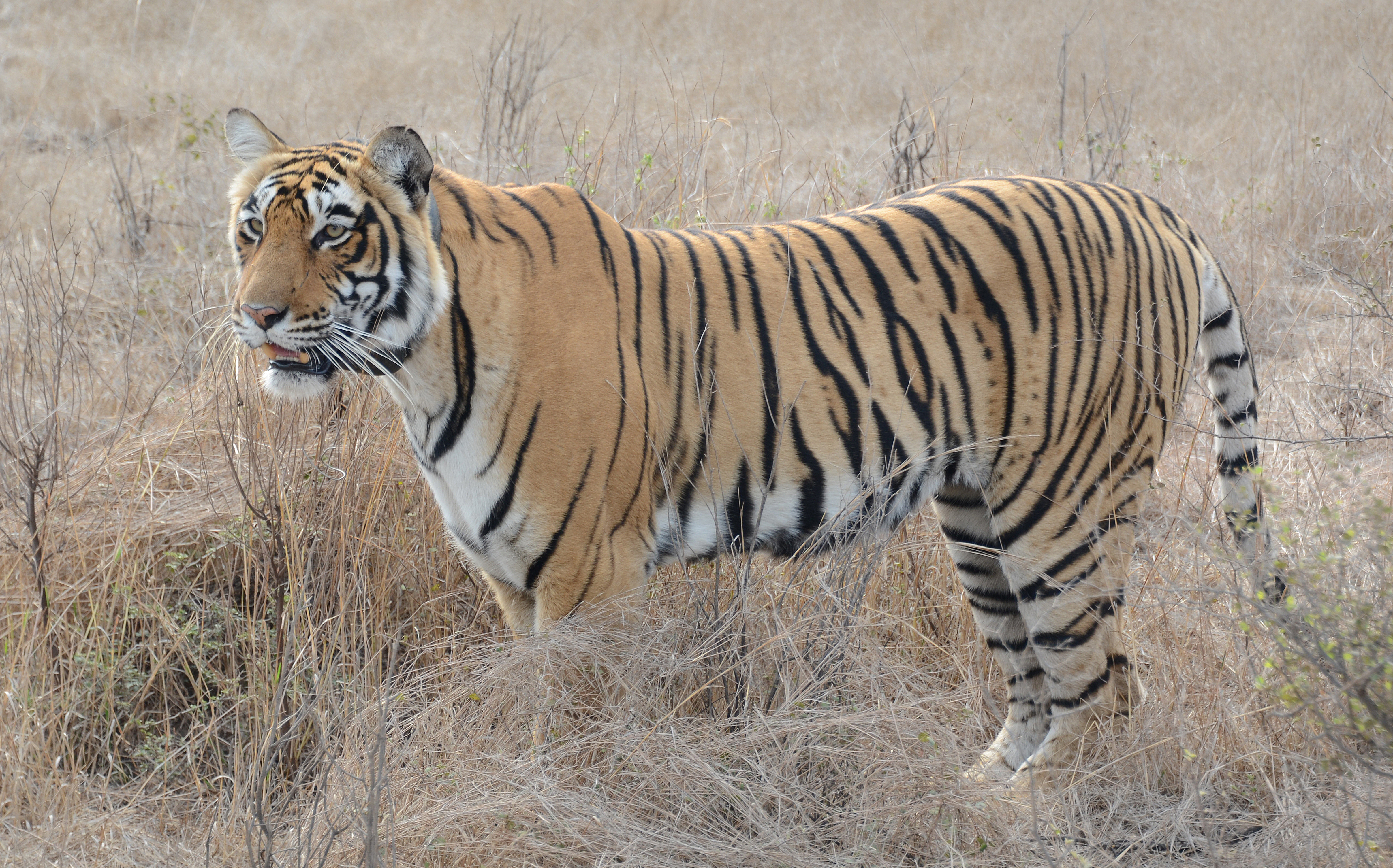 its rantambhore national park